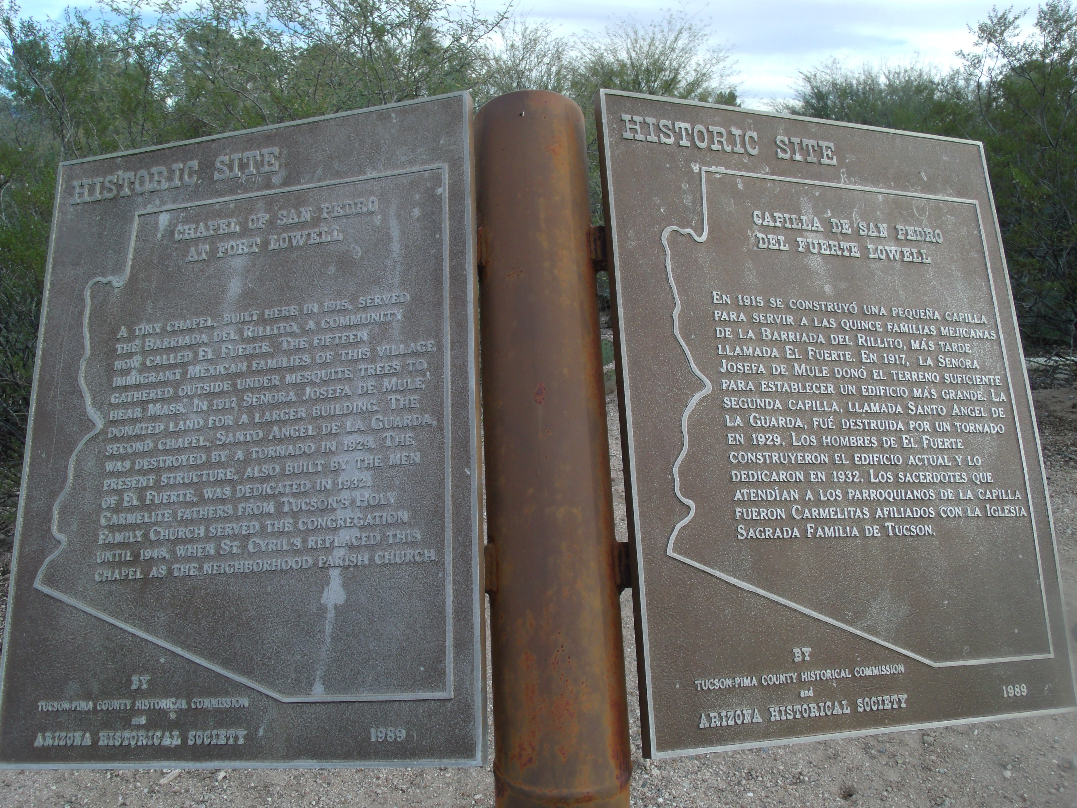 The San Pedro Chapel National Register of Historic Places Marker located at 5230 E. Ft. Lowell Rd. in Tucson, Az.